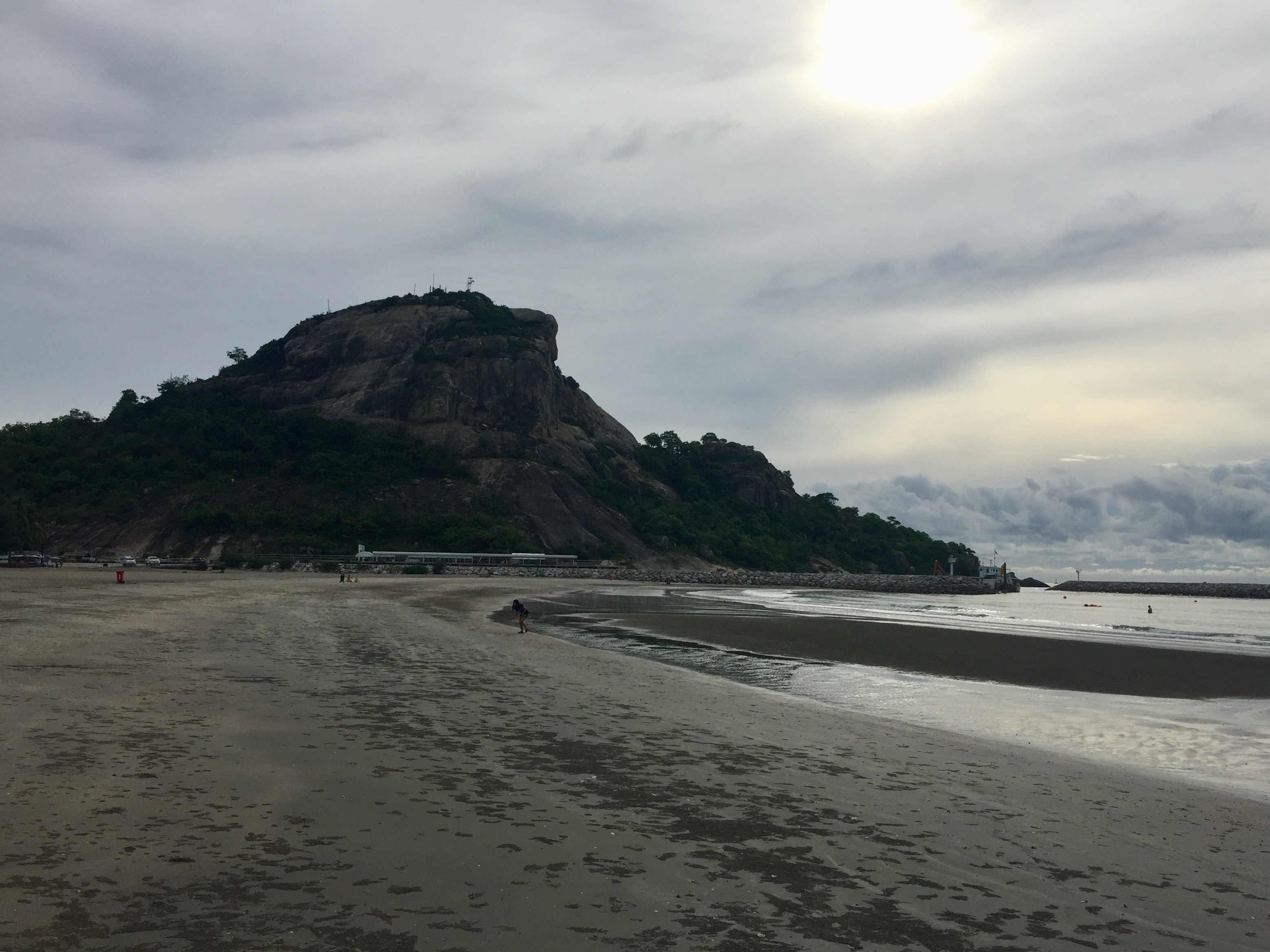 Khao Takiab (Takiab mountain), Hua Hin, Prachuap Khiri Khan, Thailand